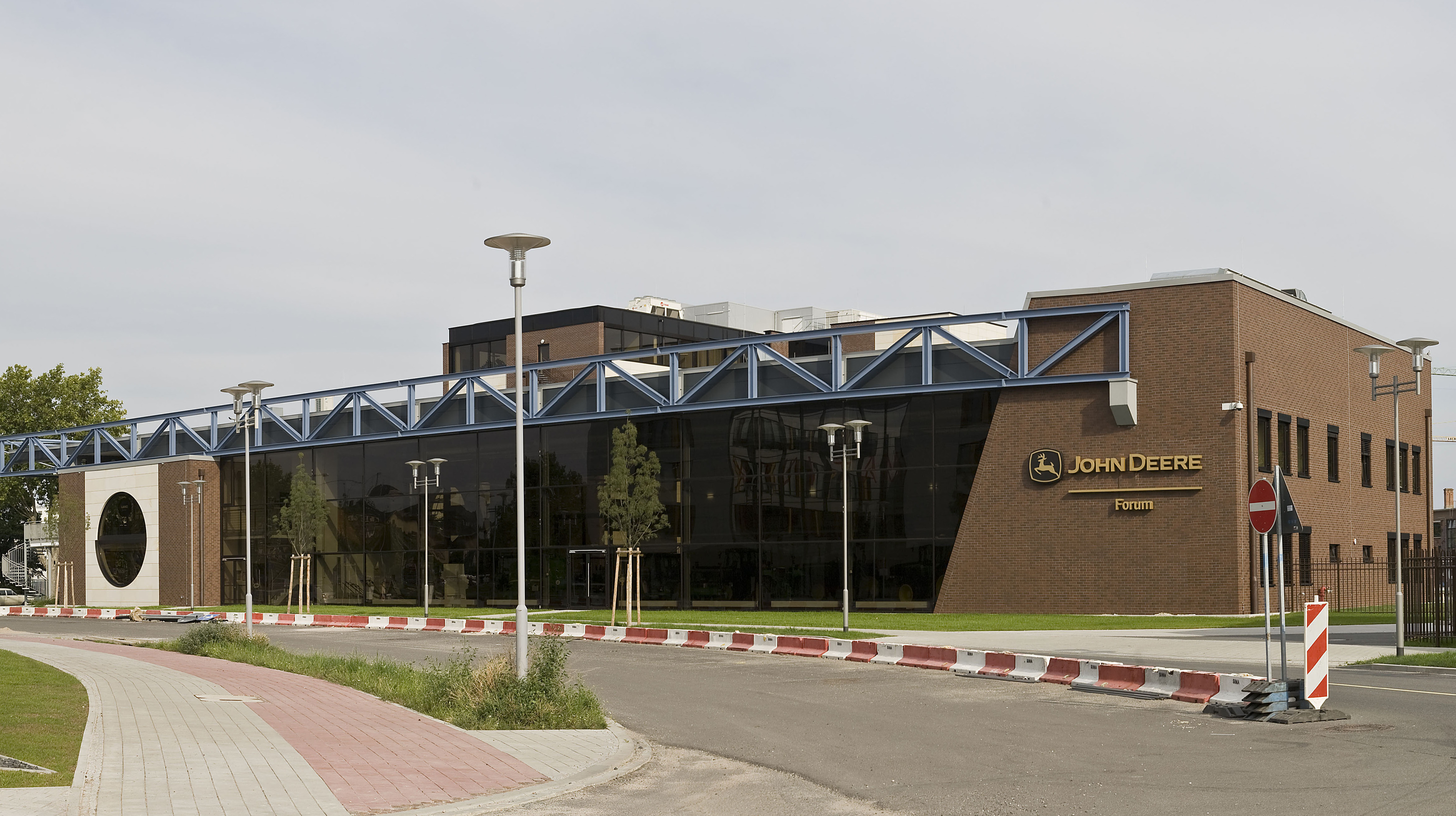 John Deere Forum, Mannheim